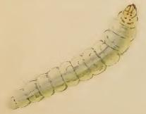 Stainton’s Natural History of the Tineina (1855–1873): Elachista albifrontella mined leaves of Holcus mollis